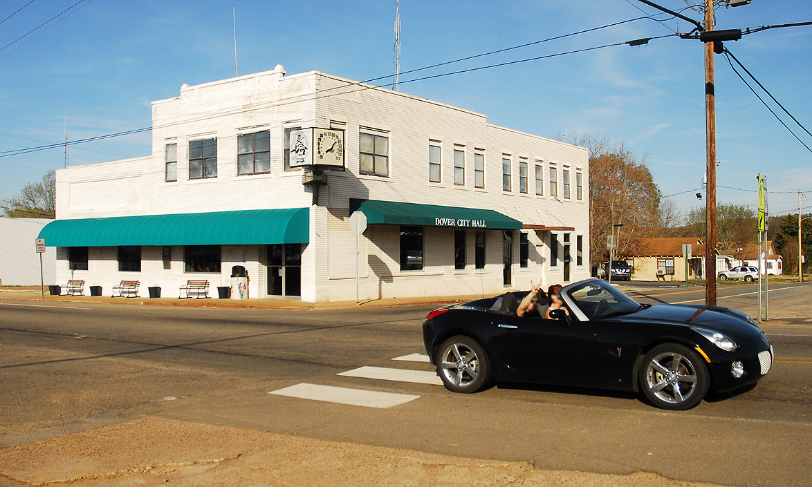 "downtown" Dover